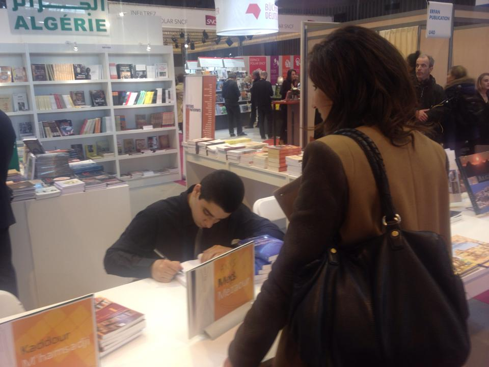 Anys Mezzaour au Salon du Livre de Paris en mars 2014.